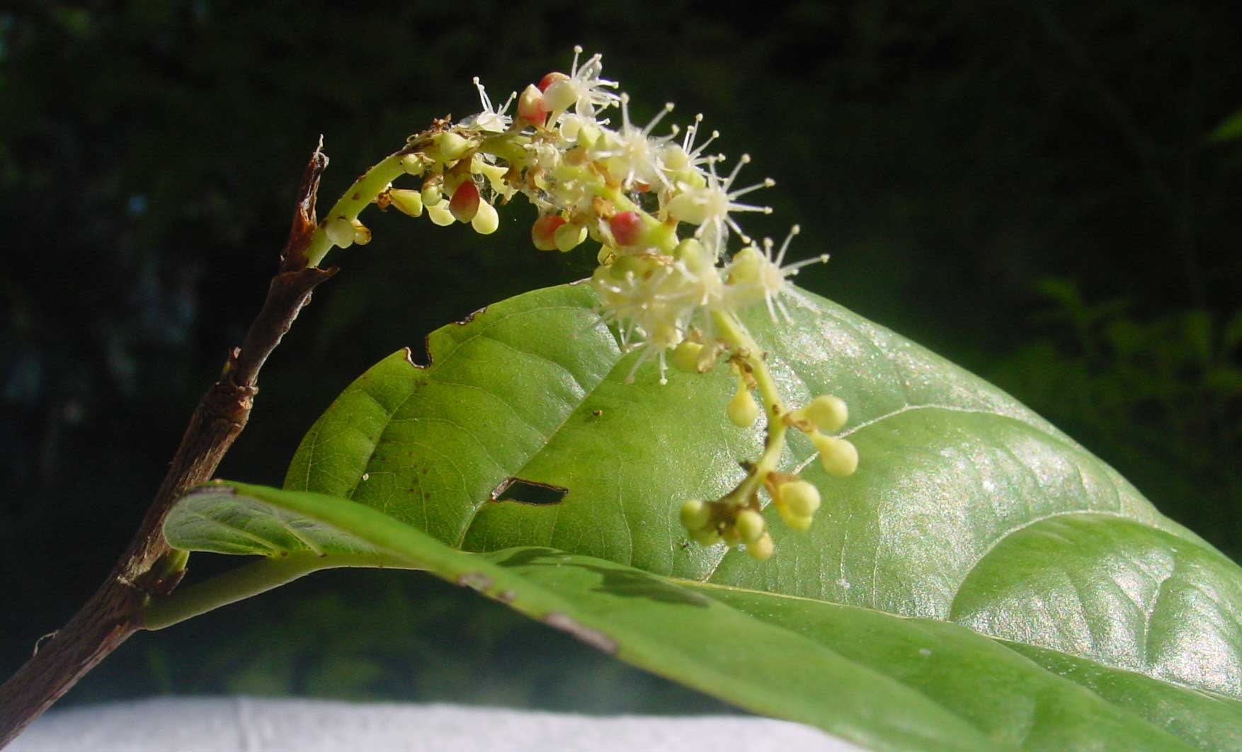 Coccoloba arborescens (Vell.) How.